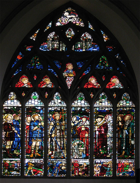 Great "West" window at Shrewsbury Cathedral This window was the work of a local woman stained glass artist in the early years of the 20th century. She also made a number of other fine windows here and elsewhere along with her cousin whose name was - confusingly - also Margaret Rope. An appeal was launched around the time of this photo to fund the re-leading of these precious examples of Arts and Crafts style in stained glass. (Strictly the window is south-facing. The site was too confined to allow the altar end {"the liturgical East" - what Larkin called "the holy end"} to actually face east - it is to the north. Thus the "liturgical West" is southwards.)